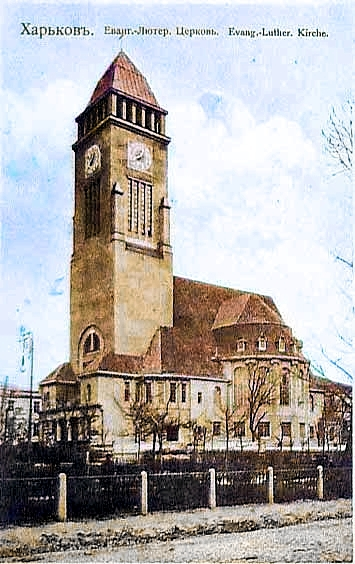 Vintage postcard of Luteran Church in Kharkov (1914). Russian Empire Postcard